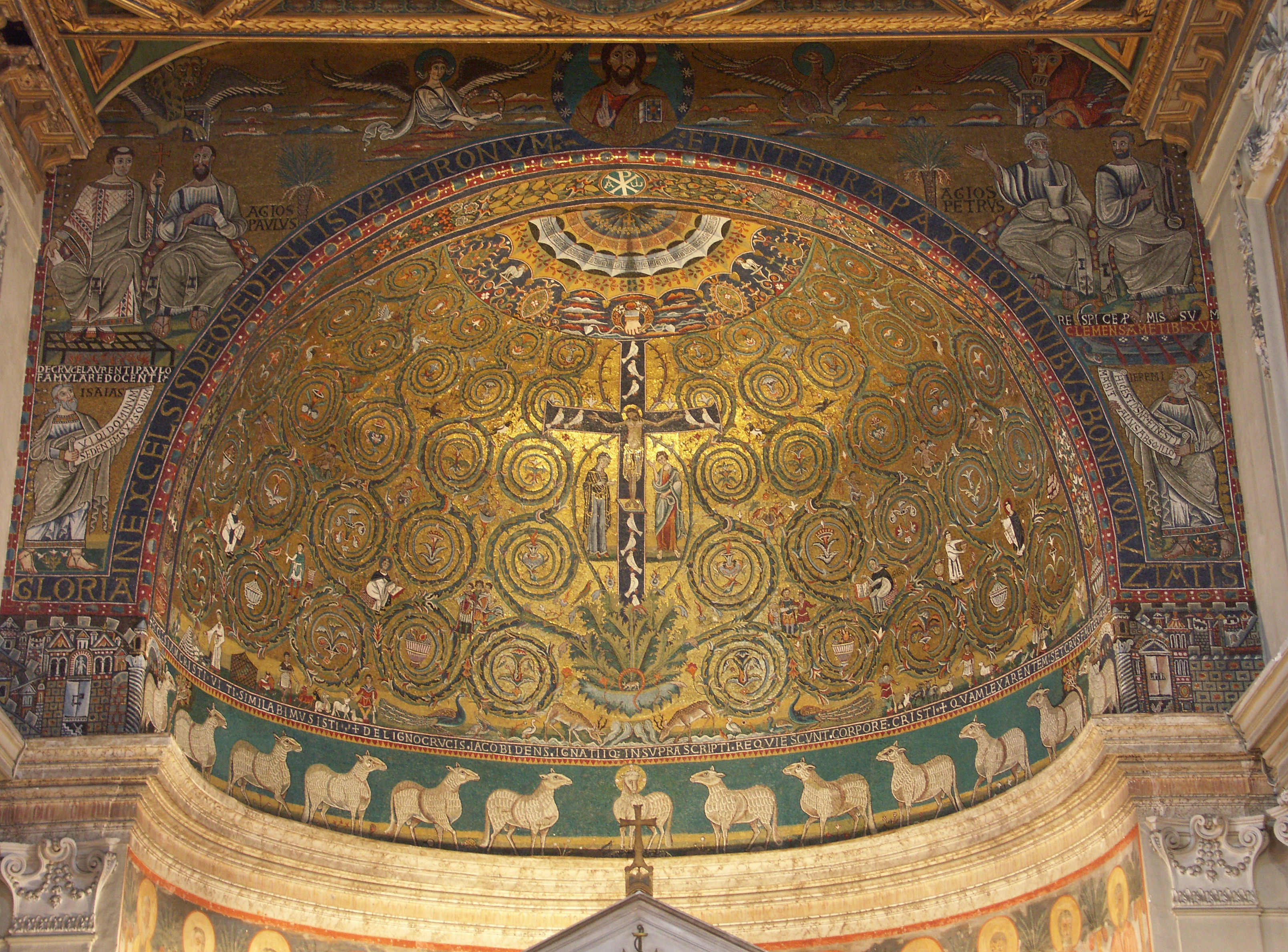 Apsis of the San Clemente basilica in Rome